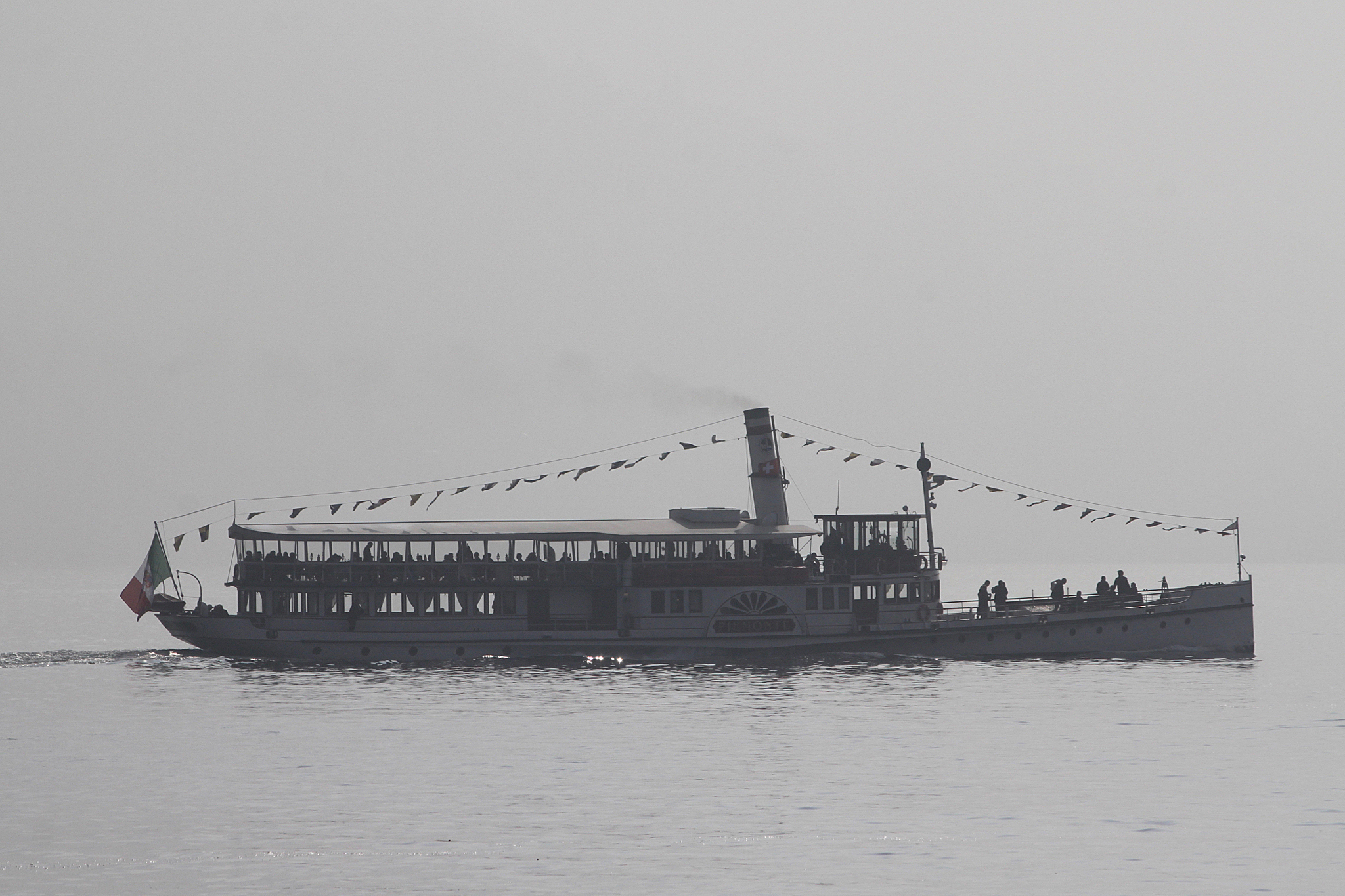 Paddle steamer "Piemonte" off Ascona.